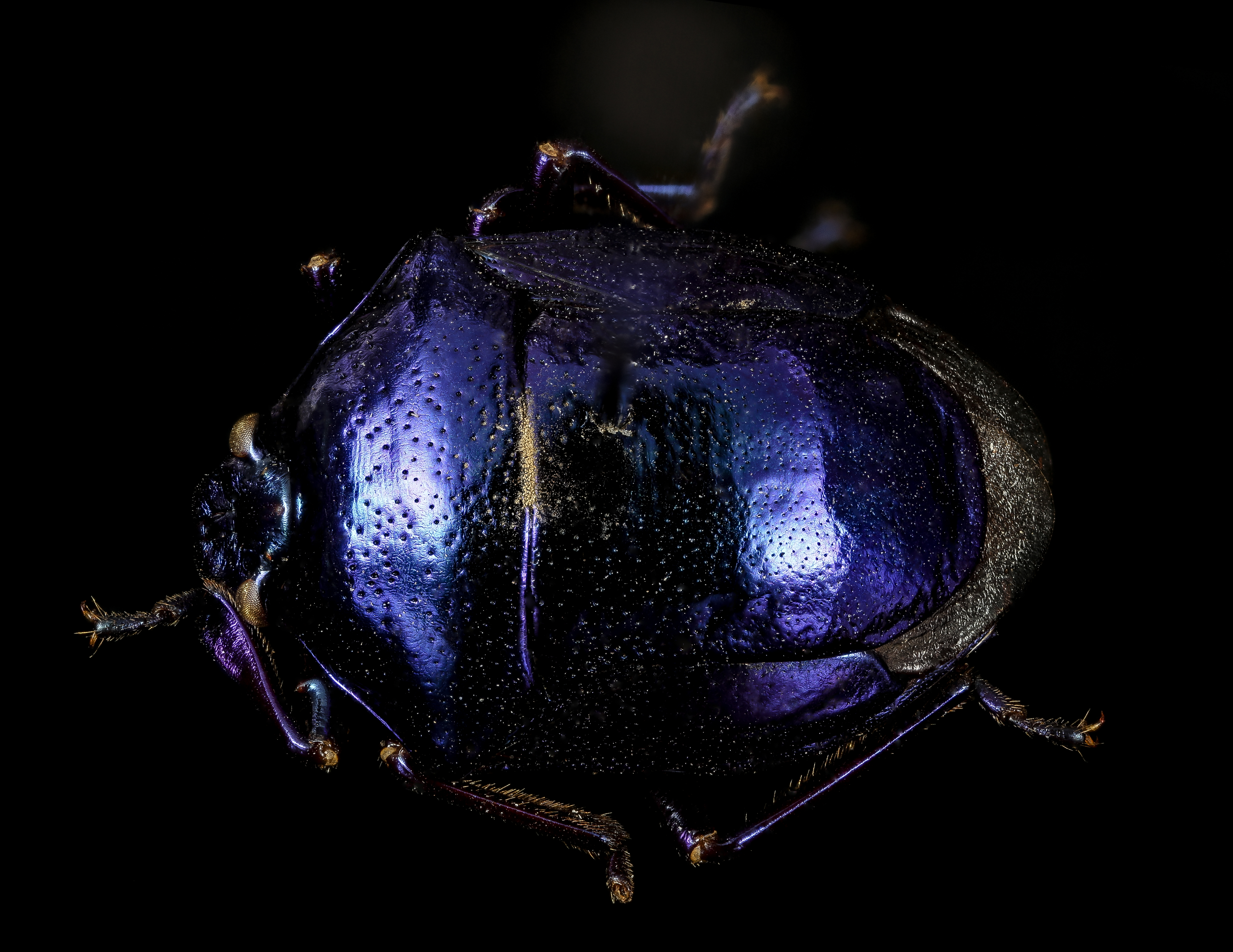 A very very variable in color (polymorphic) species in the stinkbug family from South America. I have a couple of other examples, but there seems to be no limit to the color variations this species has. How lovely and mysterious. Not sure what the research is on this thing, but it must be an interesting story. This is what you find when you dig around in the National Collection at the Smithsonian. Sadly all the specimens are old as there is little collecting going on these days. 17:28, 1 April 2016 (UTC)17:28, 1 April 2016 (UTC) 0 17:28, 1 April 2016 (UTC)17:28, 1 April 2016 (UTC) All photographs are public domain, feel free to download and use as you wish. Photography Information: Canon Mark II 5D, Zerene Stacker, Stackshot Sled, 65mm Canon MP-E 1-5X macro lens, Twin Macro Flash in Styrofoam Cooler, F5.0, ISO 100, Shutter Speed 200 Beauty is truth, truth beauty - that is all Ye know on earth and all ye need to know " Ode on a Grecian Urn" John Keats Contact information: Sam Droege 301 497 5840